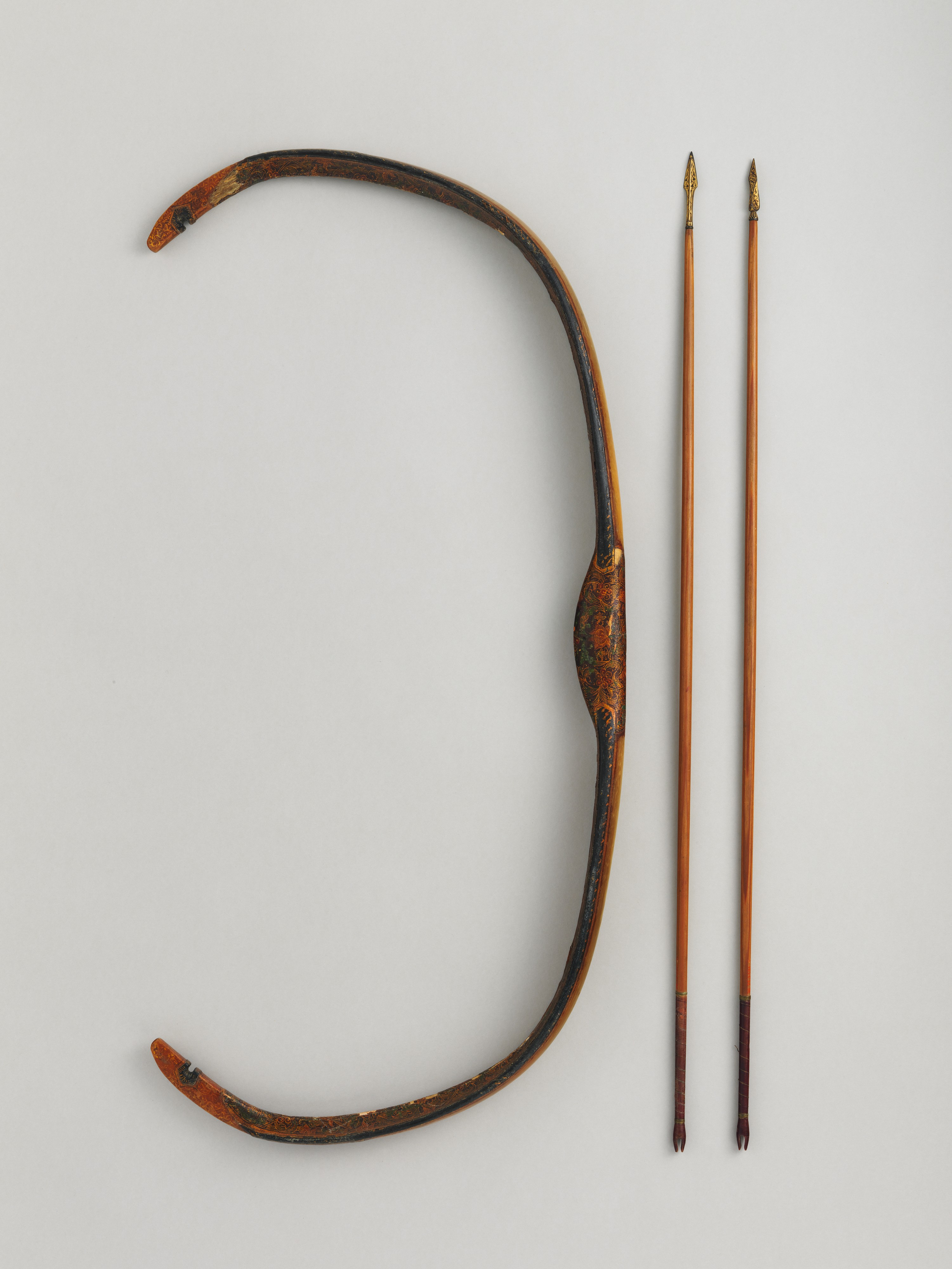 Turkish; Composite bow with forty arrows; Archery Equipment